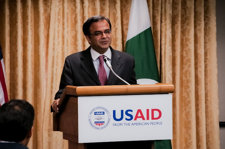 WASHINGTON, D.C. – This week, Jonathan Conly was sworn in as the new U.S. Agency for International Development (USAID) Country Director for Pakistan. USAID Administrator Dr. Rajiv Shah presided over the ceremony and administered the oath in the presence of Mr. Conly’s family, friends, and colleagues, as well as members of the Pakistani-American community and the Pakistan Embassy’s Deputy Chief of Mission, Dr. Asad Majeed Khan.